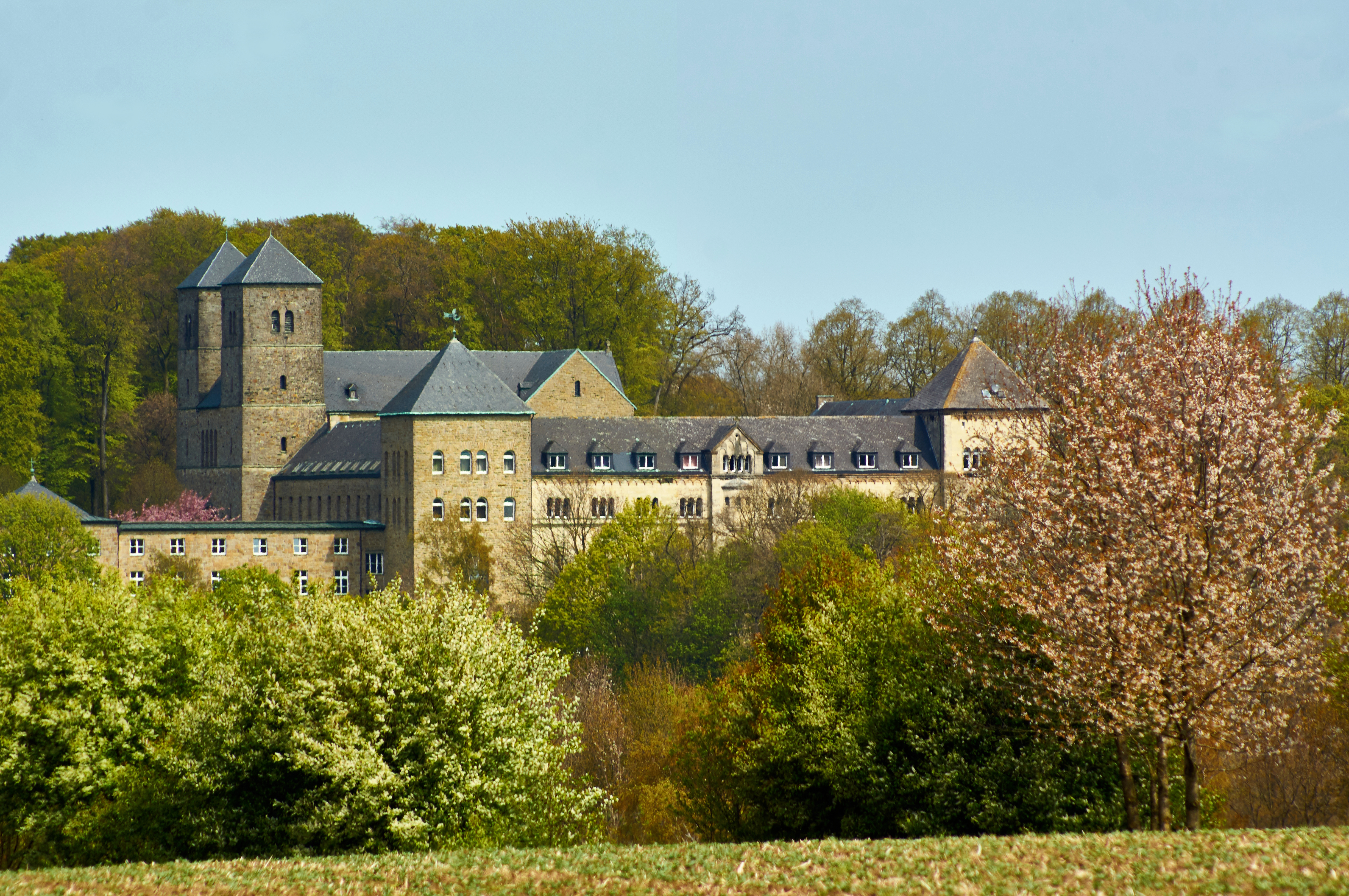 Gerleve Abbey,Billerbeck, North Rhine-Westphalia, Germany. This is a photograph of an architectural monument.